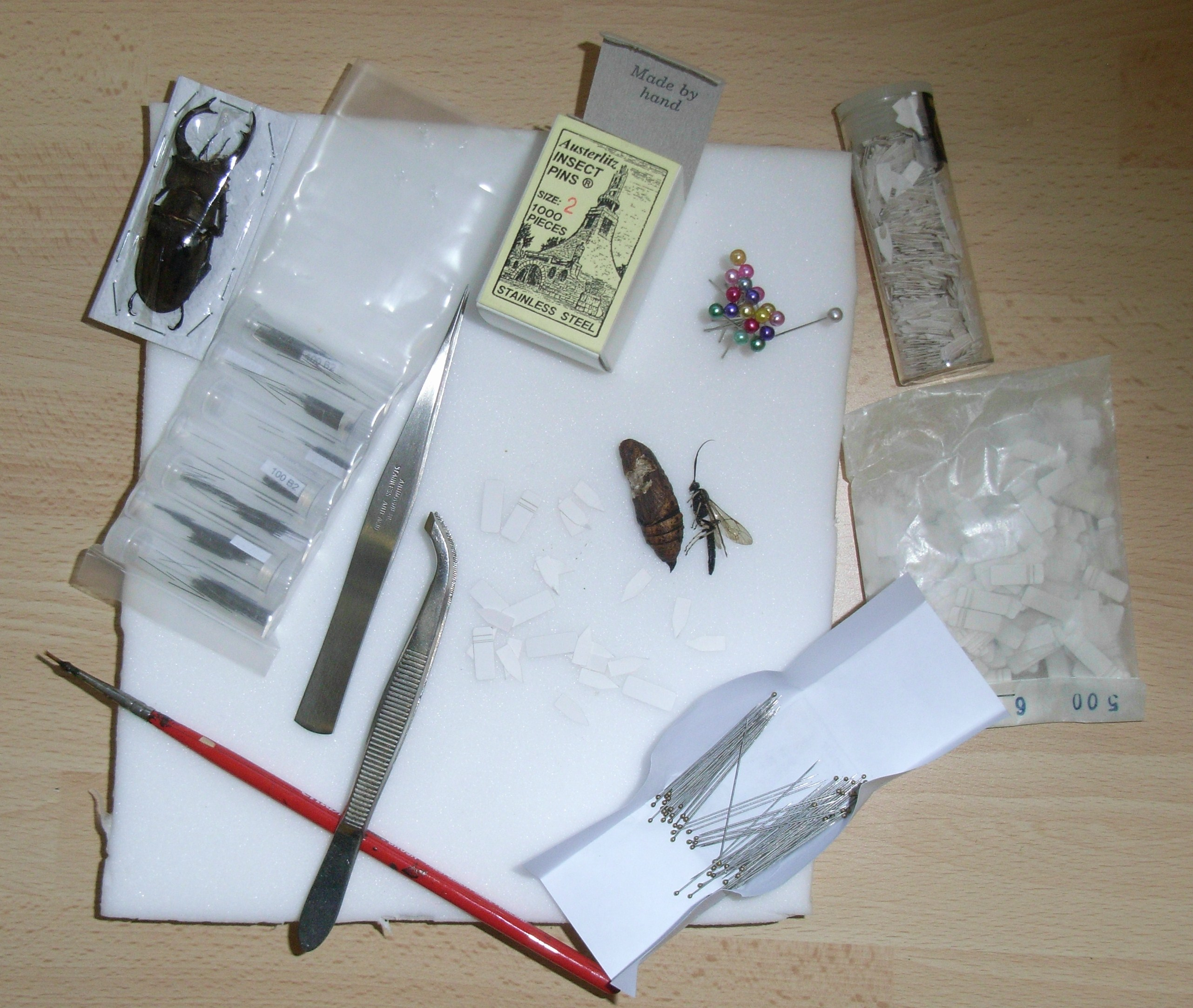 Insect mounting equipment.Curved insect forceps, fine forceps, entomological pins, minuten, precut cards, plastazote, glue brush.